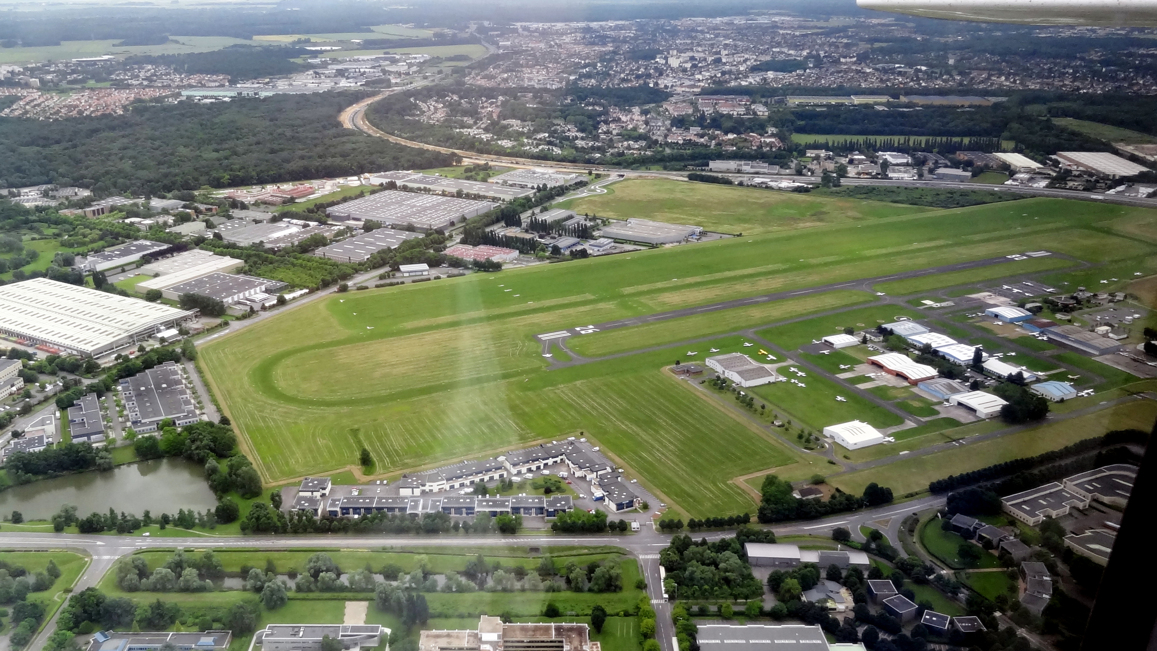 Aerialview of the Lognes-Émerainville airport (LFPL), near Paris, in France.